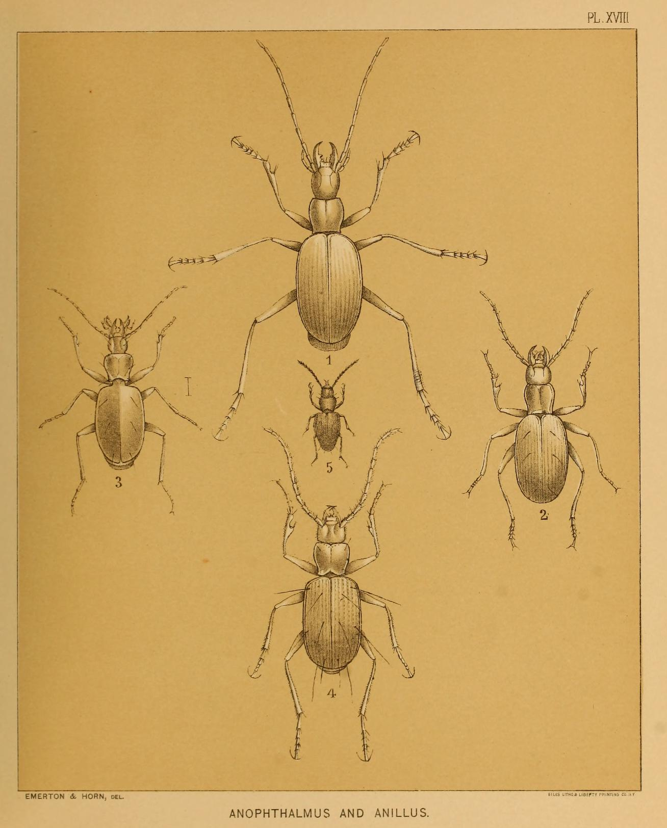 Plate XVIII. Fig. 1. Anophthalmus telllcampfii Erichs. (Emerton del.) — "The figure is a poor one ; the antennae, head, and thorax, and on the elytra the characteristic pair of sensitive hairs is entirely omitted ; all other species have three sensitive hairs on each elytrum " (E. A. Schwarz in letter). Fig. 2. Anophthalmus tenuis Horn Fig. 3. Anophthalmus eremita Horn, Little Wyandotte Cave. — " A tolerably fair representation ; the last joint of the maxillary palpi should- be longer than the penultimate, and some indication of the elytral striae ought to be given " (Schwarz). Fig. 4. Anophthalmus menetriesii Motsch. (Emerton del.) — " This is a fair representation, except that the antennas are altogether too heavy" (E. A. Schwarz). Fig. 5. Anillus explanatus Horn, (copied from Horn). — The antennae drawn by lithographer too stout and the setae too coarse.